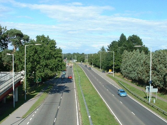 A31 Road at St. Leonards. Taken from footbridge looking north east